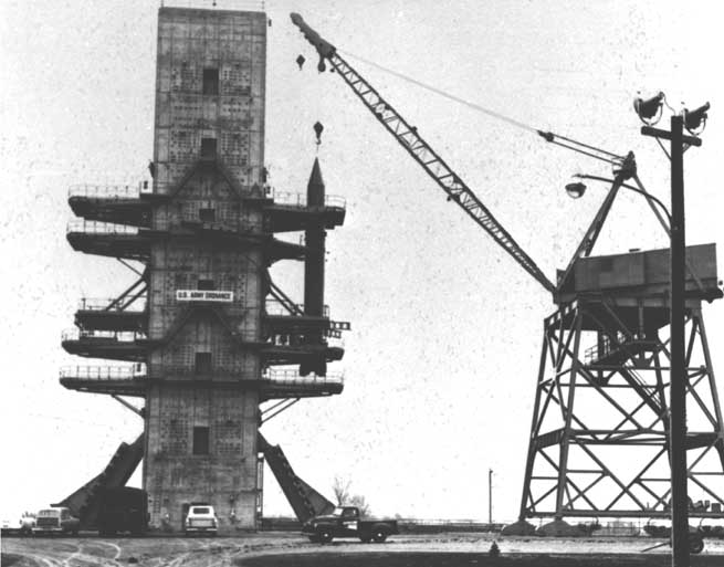 Construction of the largest static test stand in the United States for testing rocket motors was completed at RSA. It was slated for use in the JUPITER program.